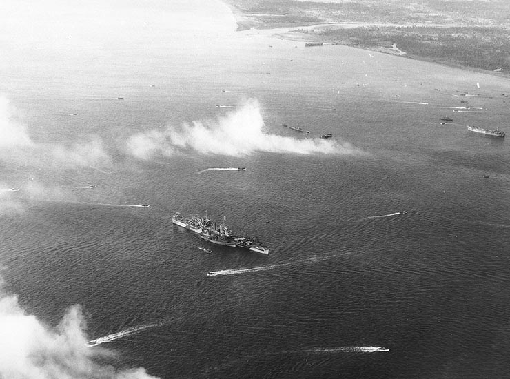 The U.S. Navy light cruiser USS Honolulu (CL-48) beached off Leyte on 21 October 1944, after she had been torpedoed by a Japanese aircraft. A fleet tug (ATF) is alongside.